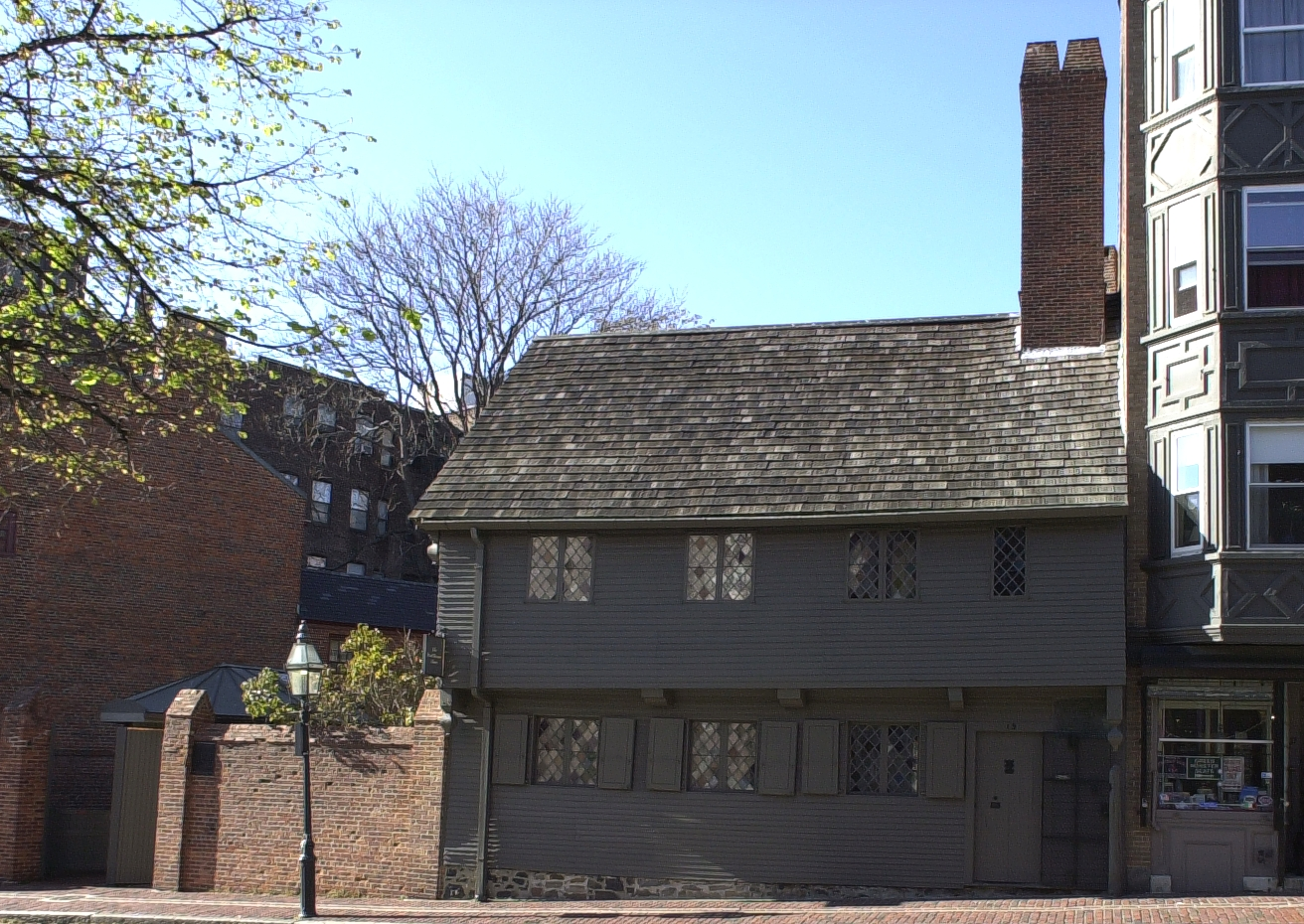 Paul Revere House, North End, Boston, MA